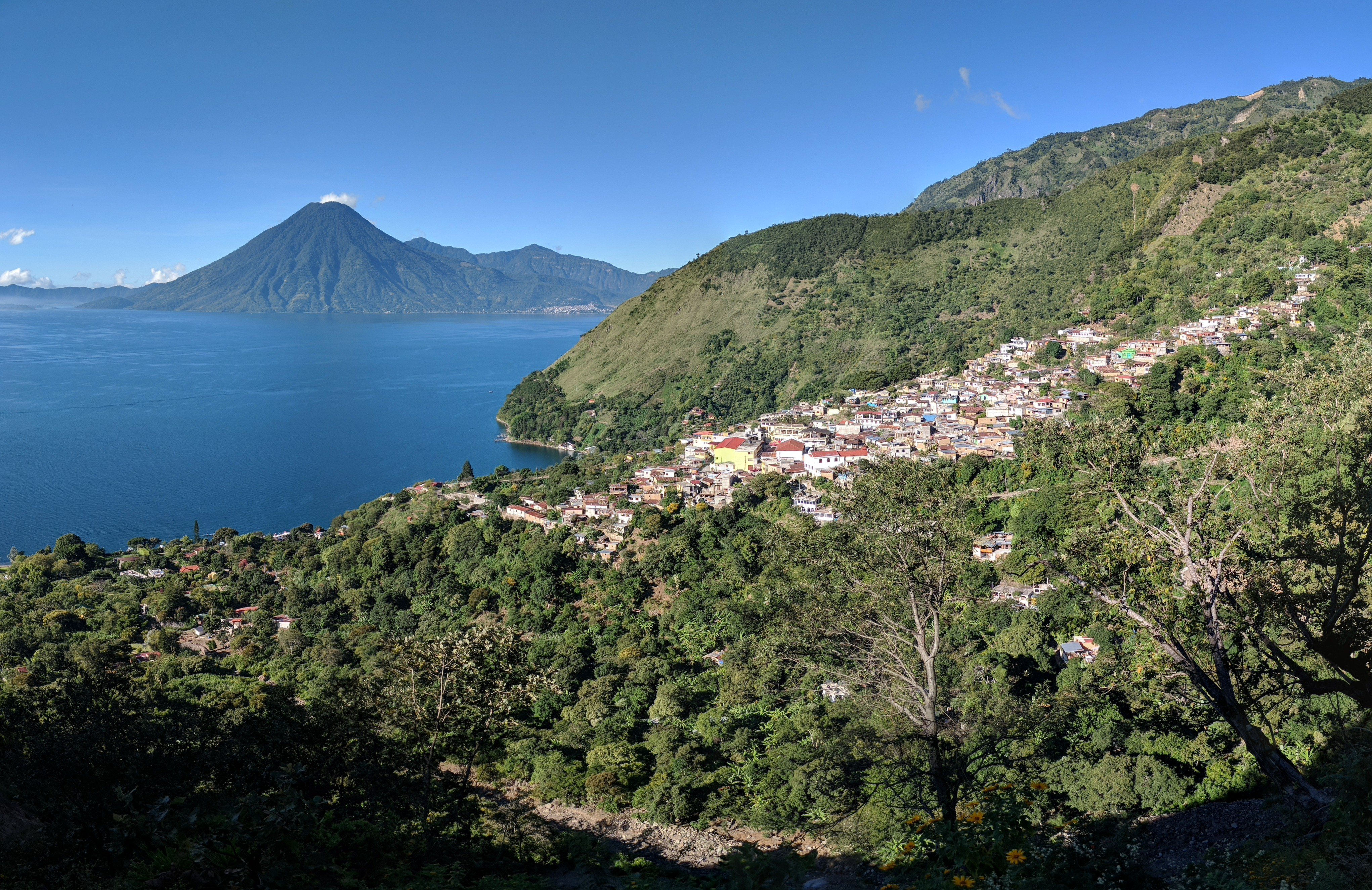 The village of Santa Cruz La Laguna taken from the Santa Cruz La Laguna road with Lake Atitlan and the San Pedro volcano in the back ground.